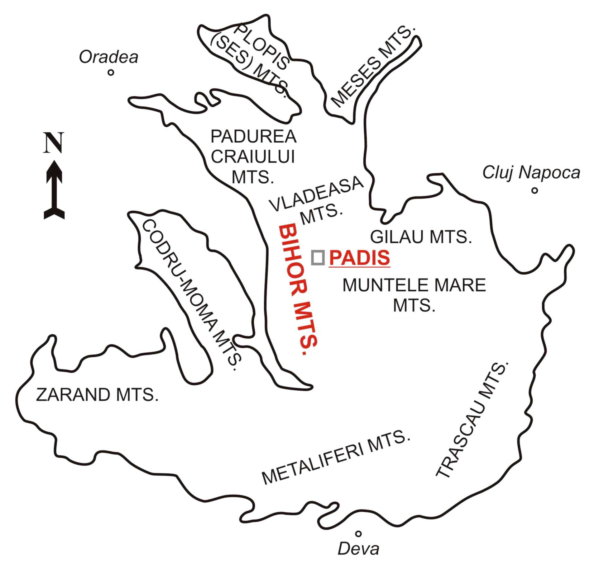 Sketch map of the Apuseni Mts, and location of the Padis Plateau.